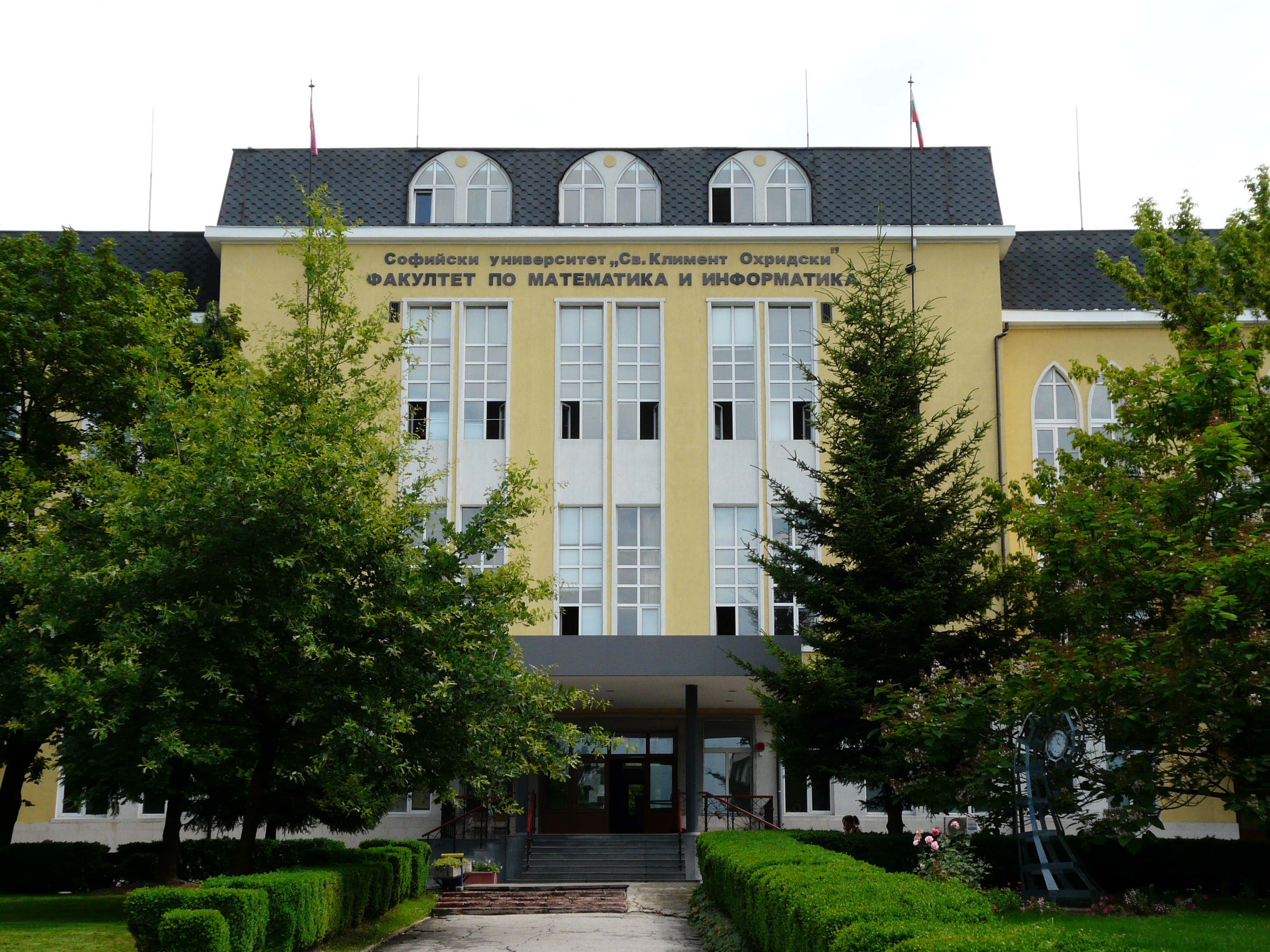 Faculty of Mathematics and Informatics - Sofia University